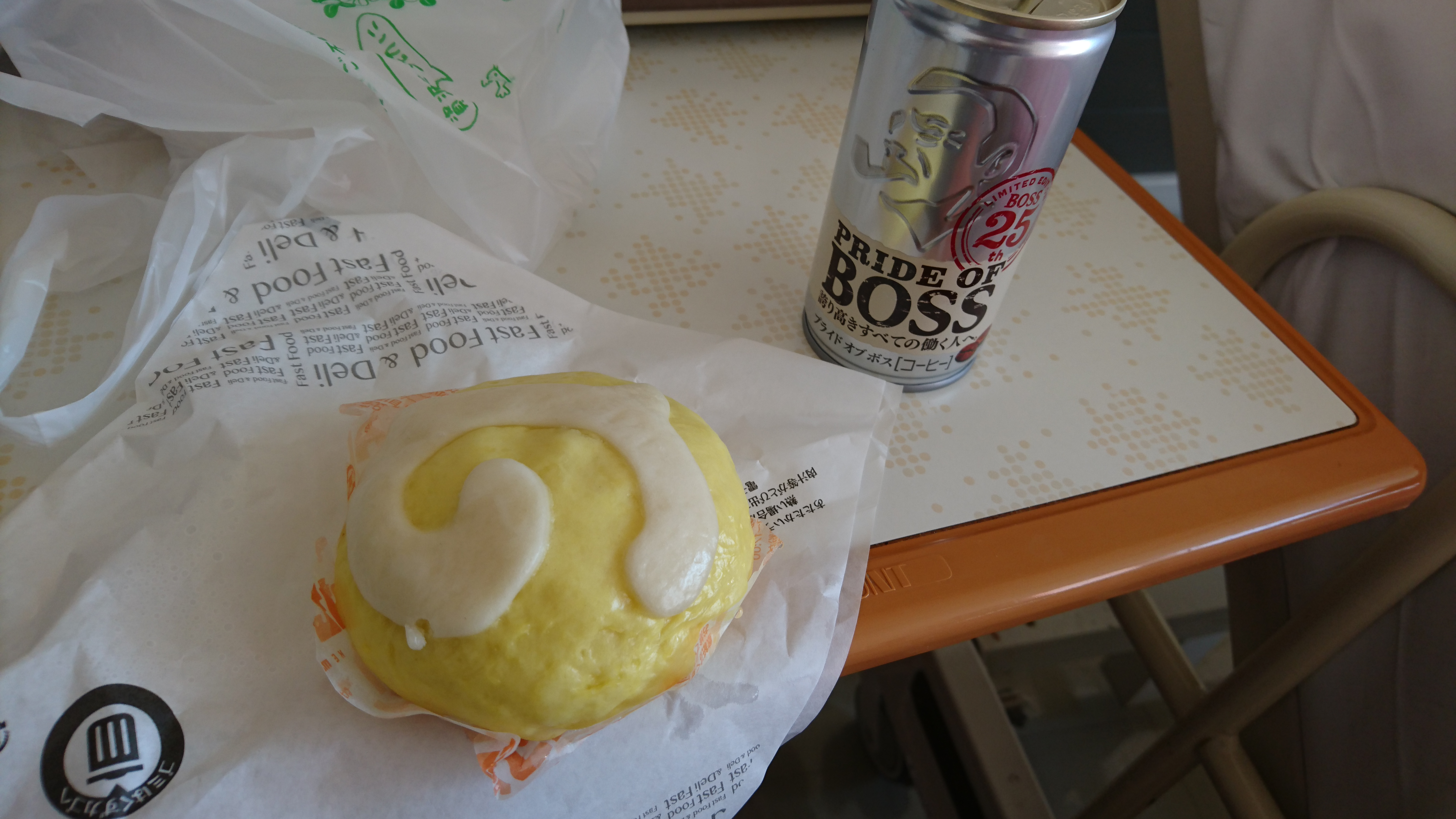 Actually released "Japari-man"